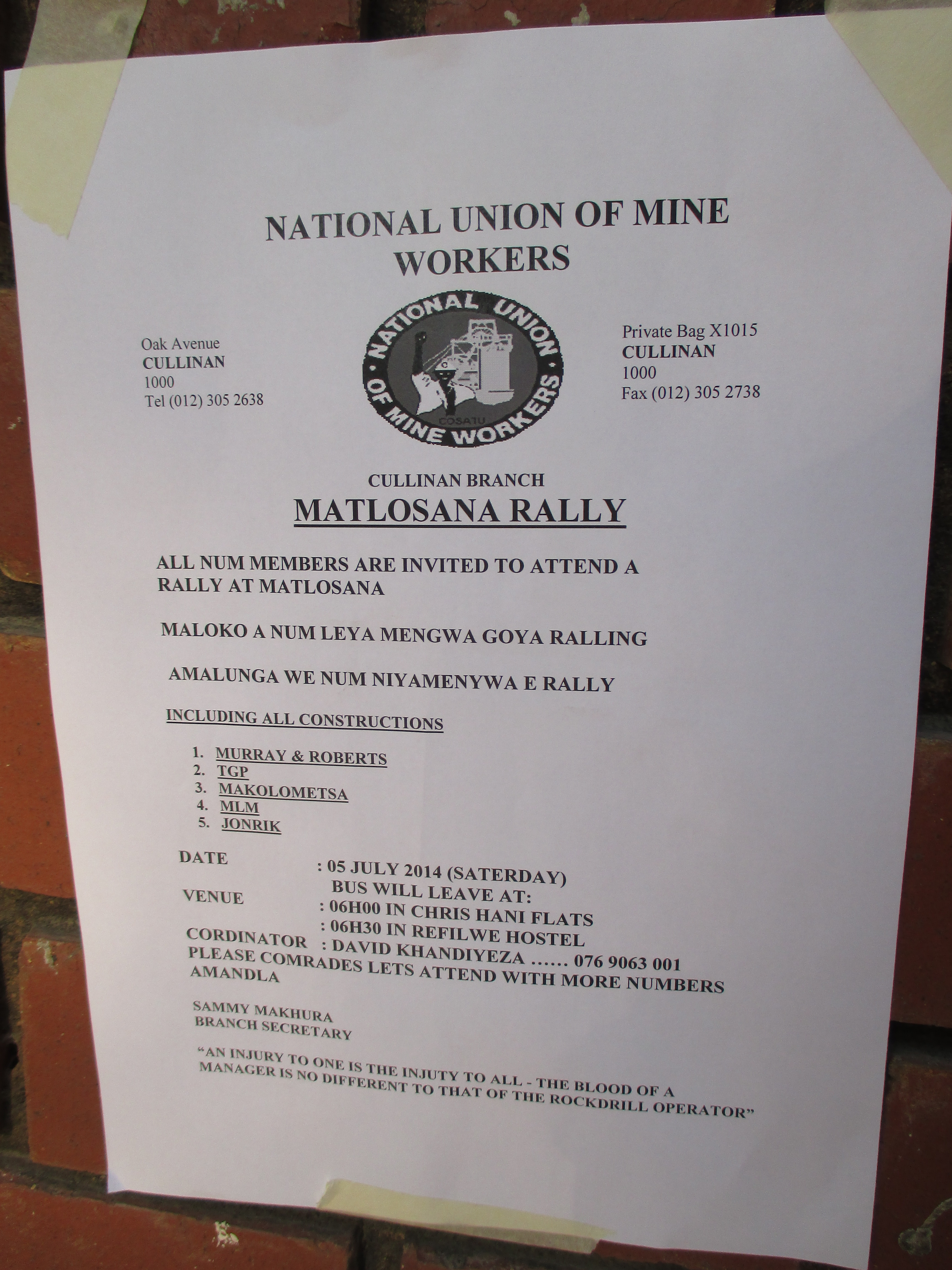 Description: Pinned notice at Premier Mine promoting a COSATU and National Mineworkers' Union rally. Gauteng, South Africa.